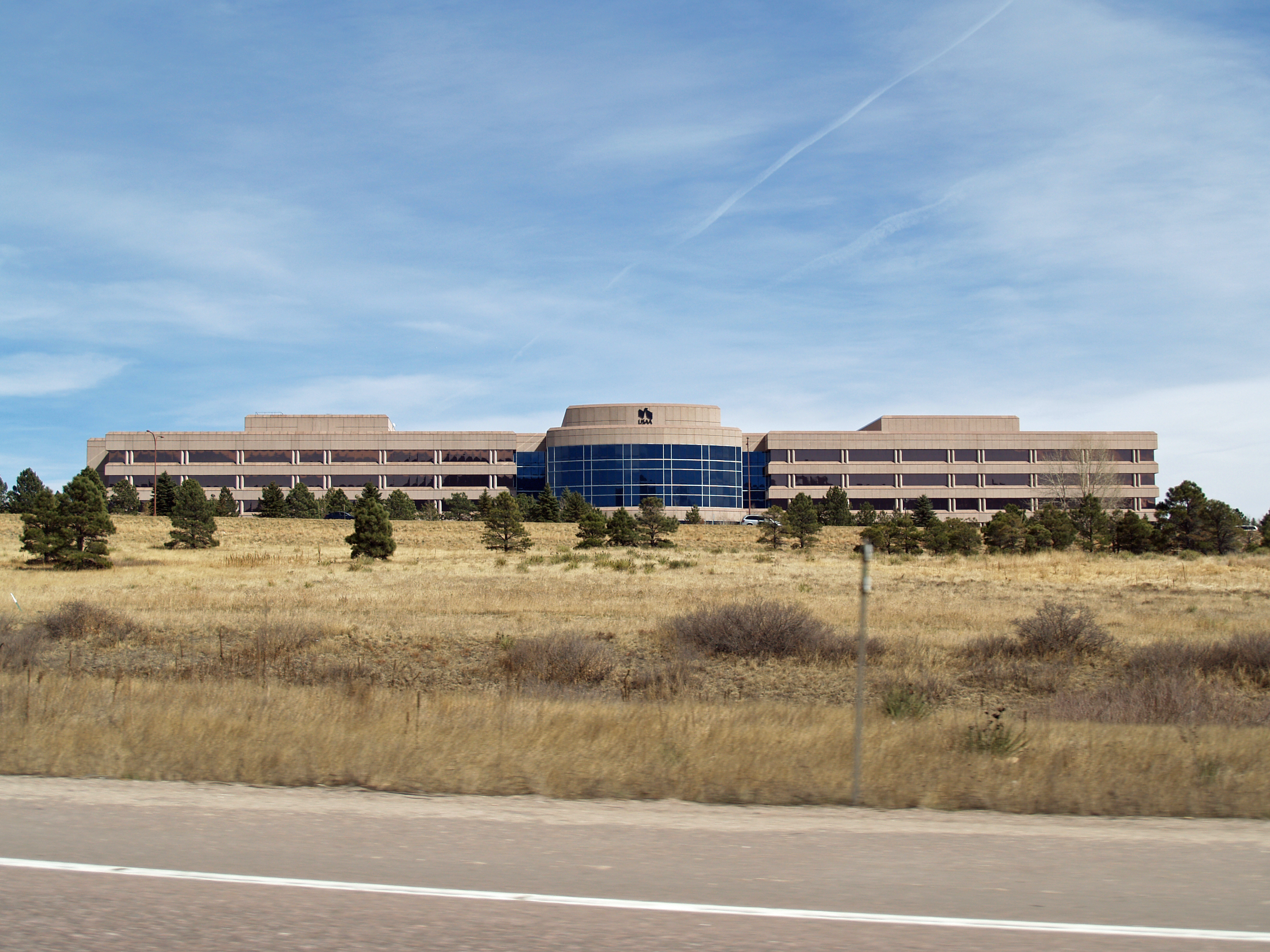 The USAA office in Colorado Springs, Colorado.